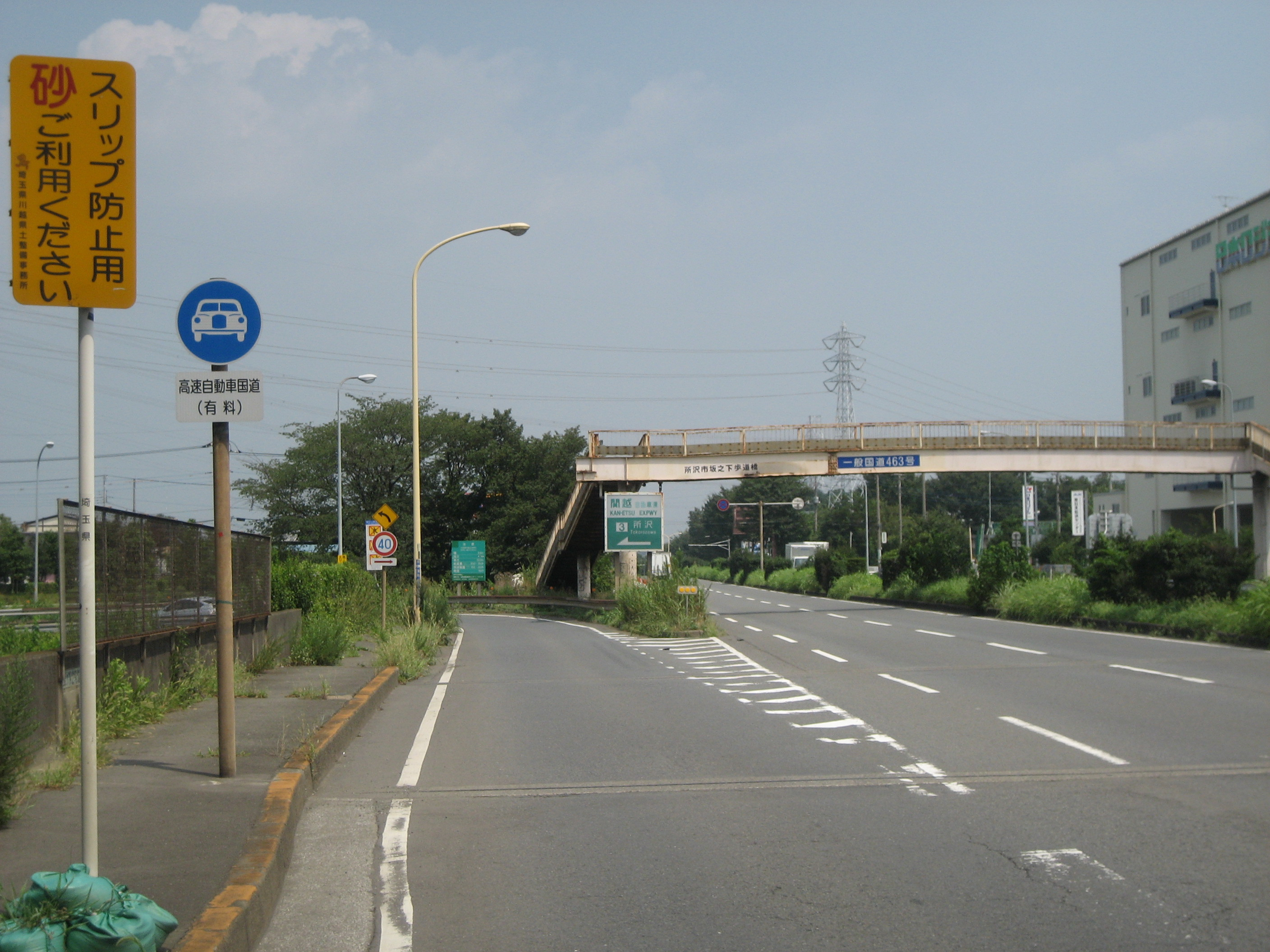 Entrance to Tokorozawa Interchange on the Kan-etsu Expressway